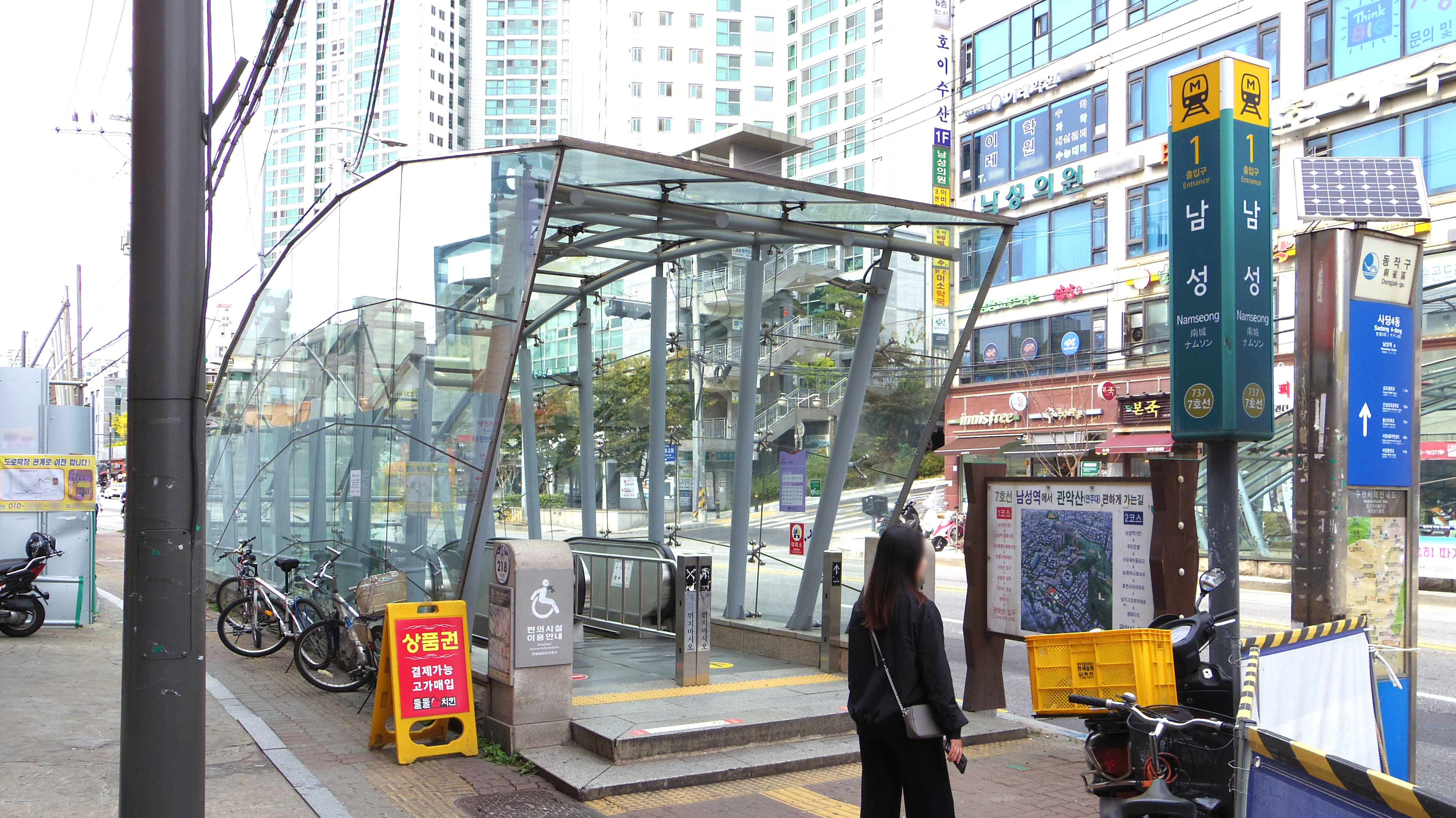 The no.1 entrance to Namseong Station on the Seoul Metro Line 7 in Dongjak-gu, Seoul, Republic of Korea(South Korea)